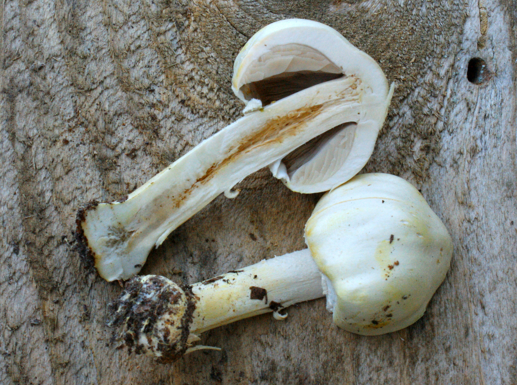 Agaricus silvicola near Kikomun Creek Camp Ground, near Baynes Lake, British Columbia, Canada, found under Dughlas-fir and Spruce (possibly pine as well)